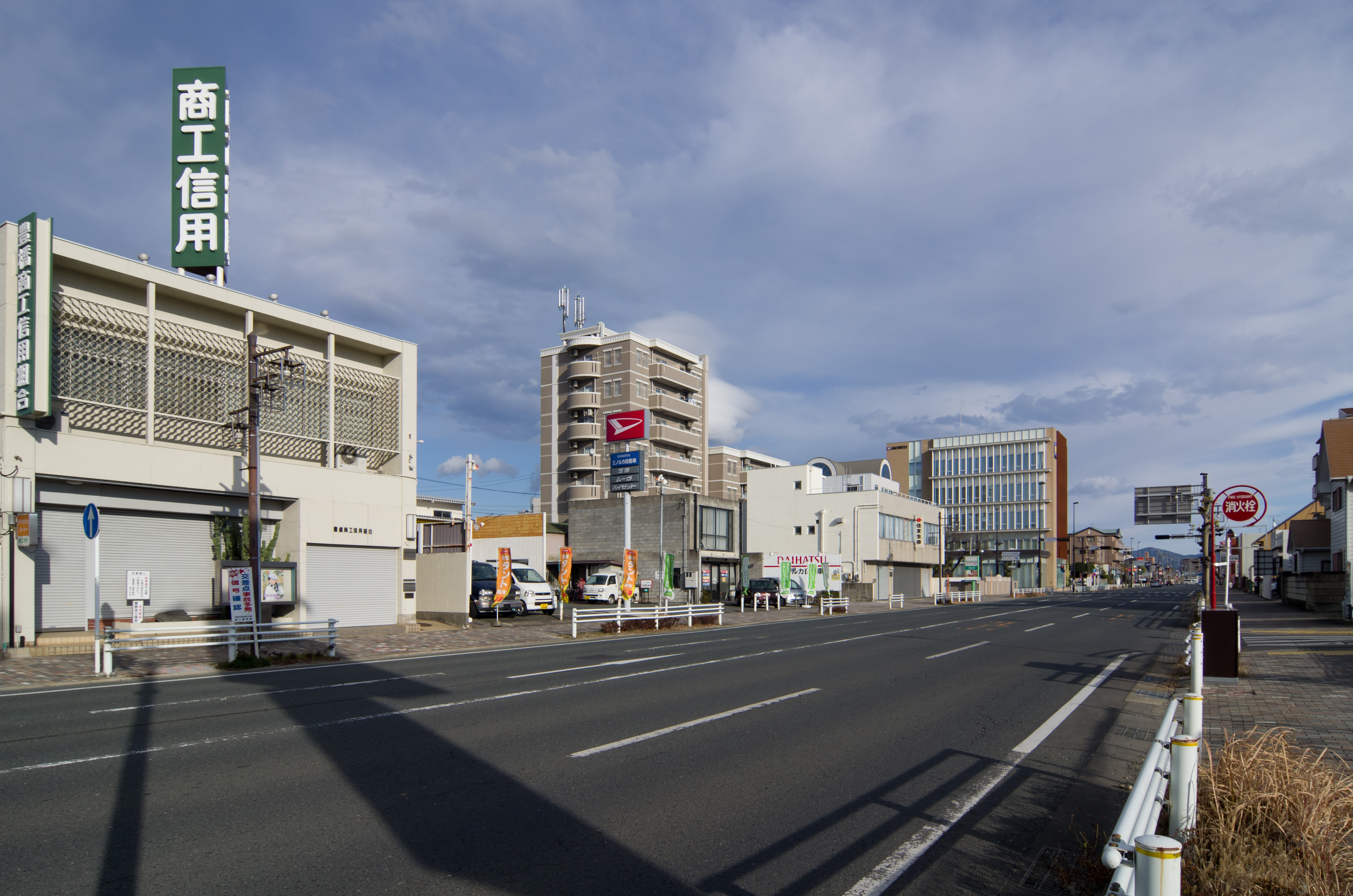 The Aichi Prefectural Road Route 5 in Toyokawa, Aichi, Japan. Around the Toyokawa City Hall, electric cables are buried under the ground